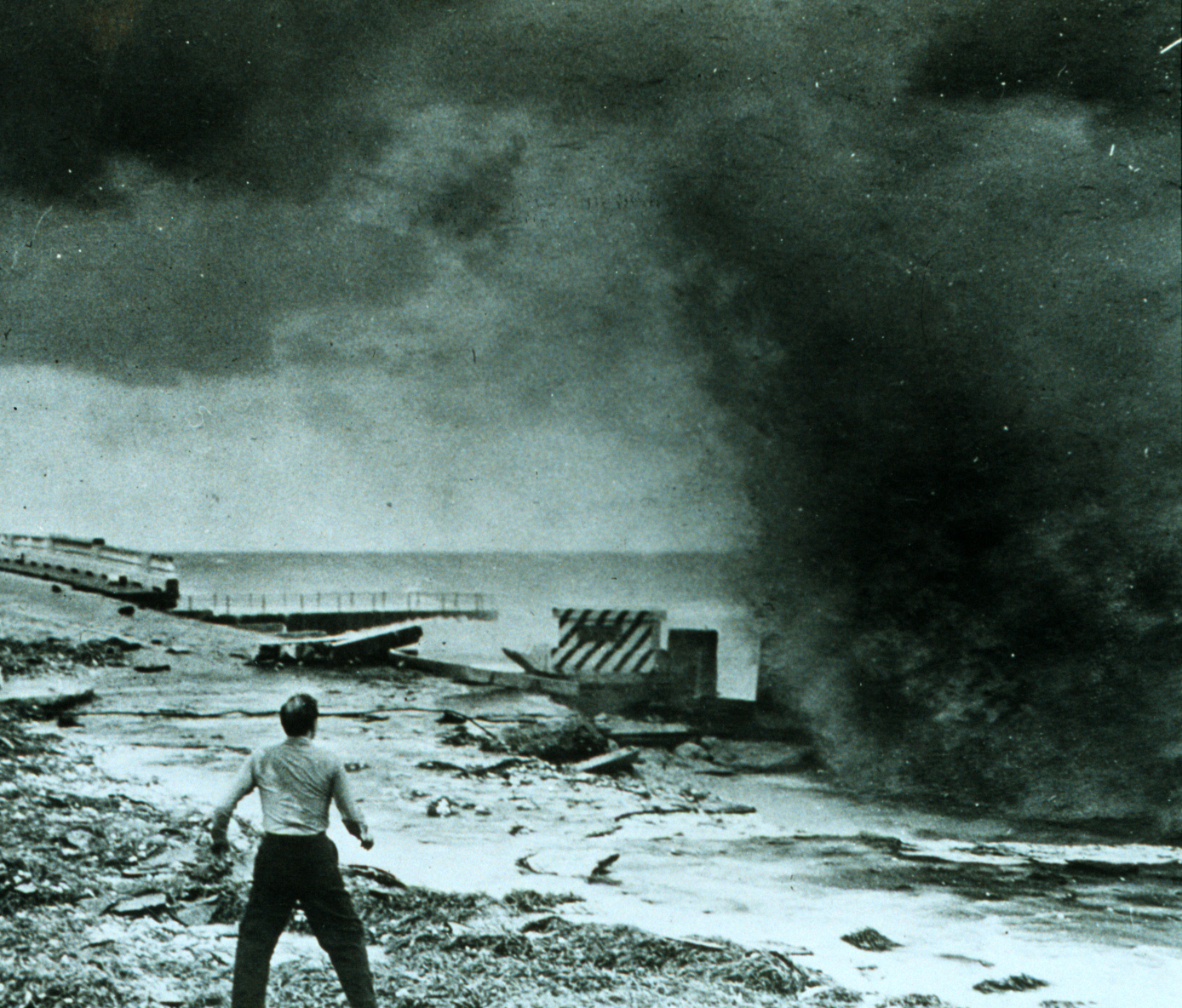 Startled man ready to run after hurricane driven wave smashes into seawall, just north of Miami Beach, Florida